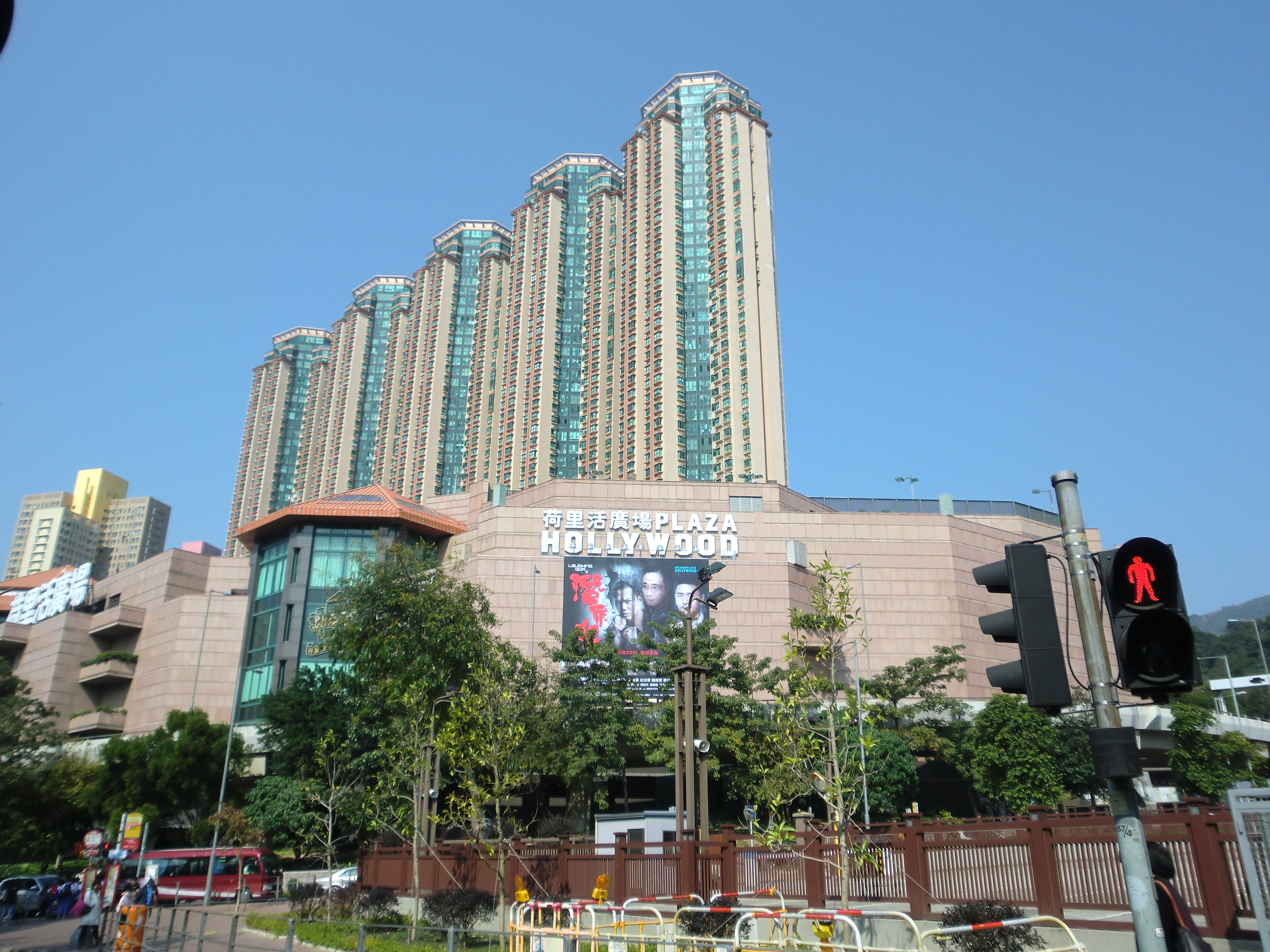 Galaxia & Plaza Hollywood